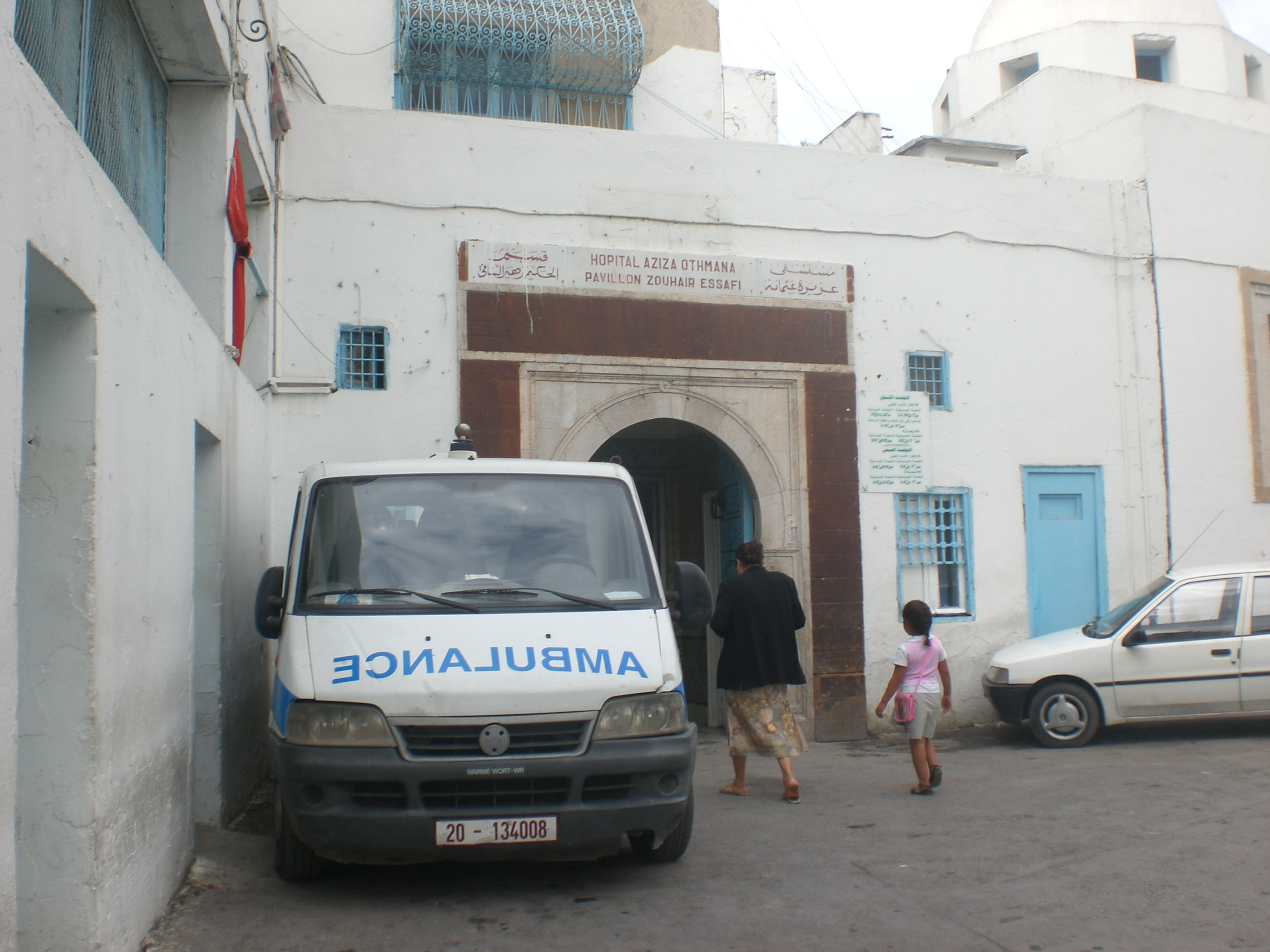 Aziza Othmana Hospital-Tunis